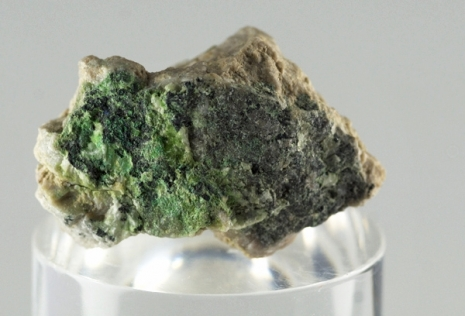 Aktashite Dimensions: 2.2 cm x 2.2 cm x 0.9 cm Locality: Moctezuma, Mun. de Moctezuma, Sonora, Mexico Aktashite is a very rare, gray, Cu-Hg-As sulfosalt of hydrothermal origin found in complex polymetallic As/Hg-bearing deposits. Gray aktashite is richly dispersed on matrix along with other rare species from this very unusual and obscure Mexican locale. There is probably mint-green, fibrous emmonsite plus an unknown green mineral. Ex. American Museum Collection.